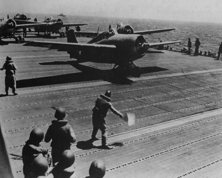 U.S. Navy grumman F4F-4 Wildcat fighters of fighter squadron VF-71 launching the aircraft carrier USS Wasp (CV-7), 7 August 1942.